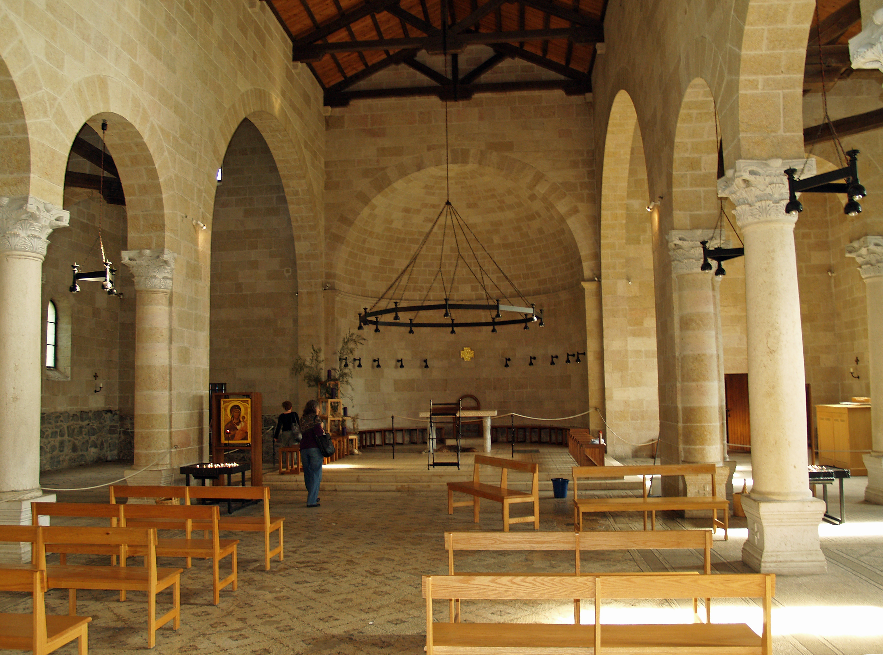 Interior of the Church of the Multiplication in Tabgha.